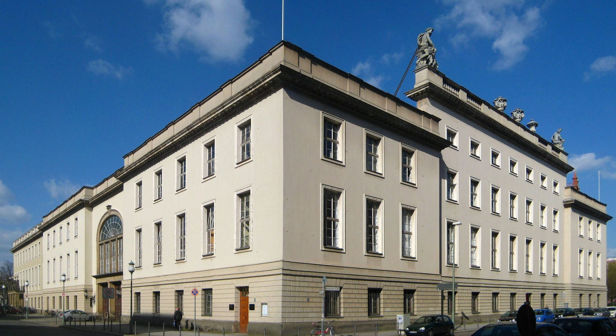 Administration and depot building of the State Opera Unter den Linden, Hinter der Katholischen Kirche 1-2, corner of Französische Straße (right), in Berlin-Mitte. It was constructed from 1952 to 1954 to a design by Richard Paulick. The building has been dedicated as a historic landmark.